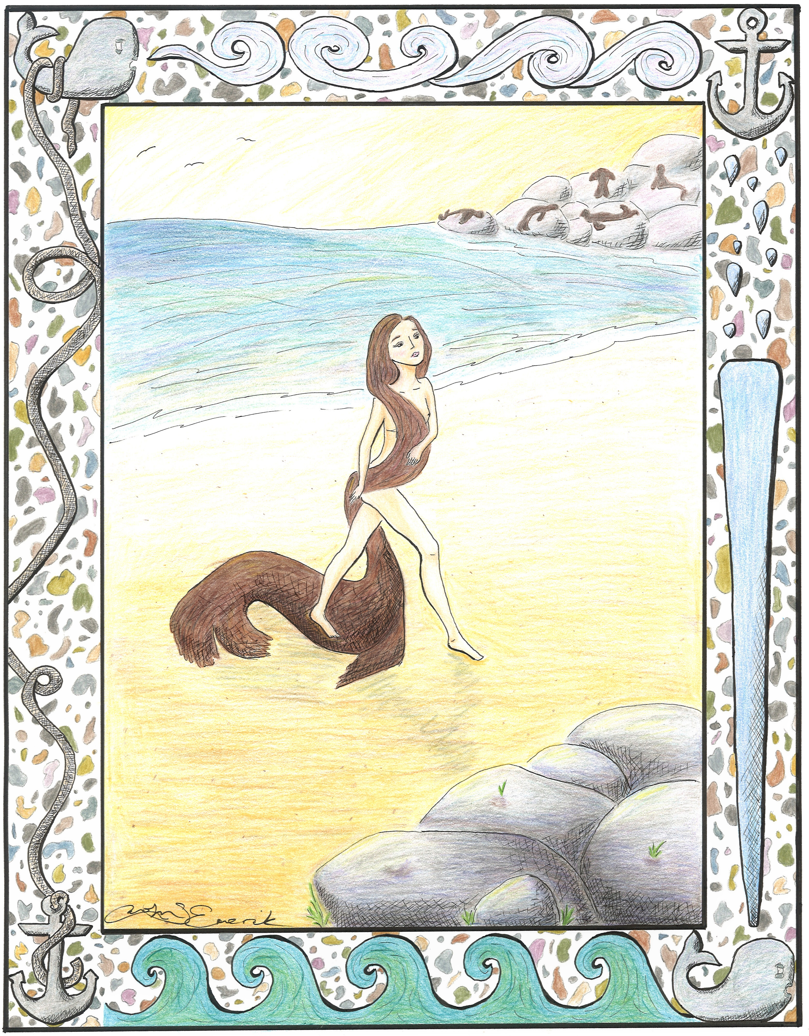 An illustration depicting a Selkie, the seal-woman of Celtic and Norse myth, originally drawn to accompany an article called "Women of the Sea, Muses of the Ages" by Carolyn Emerick in Celtic Guide Vol. 2 Issue 9 (